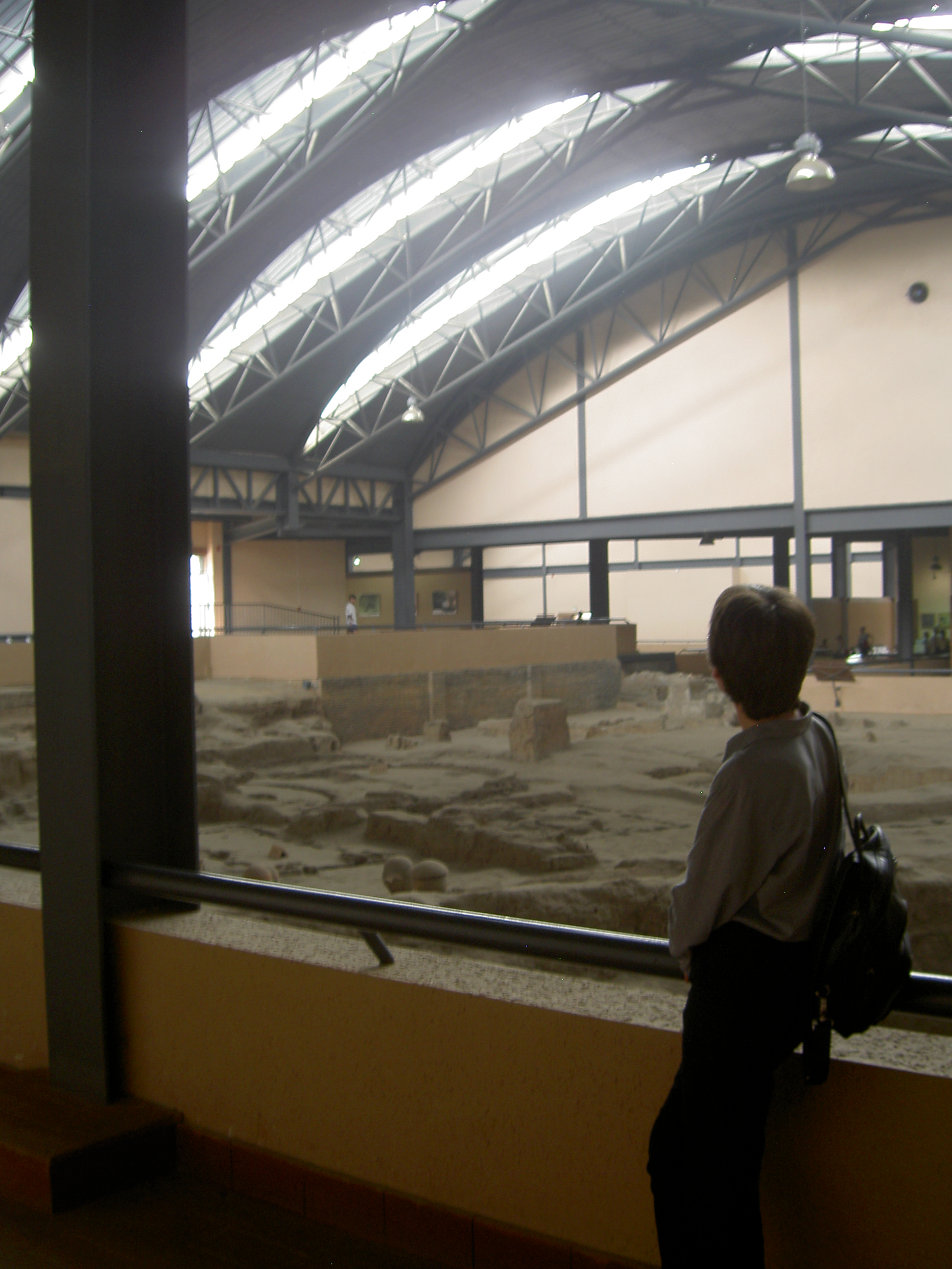 The Banpo Neolithic village